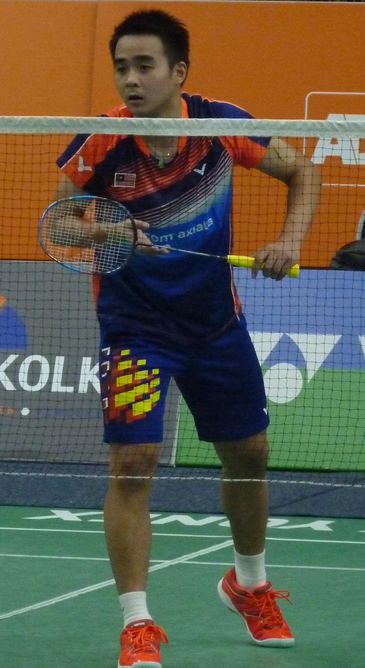 Soong Joo Ven (MAS)